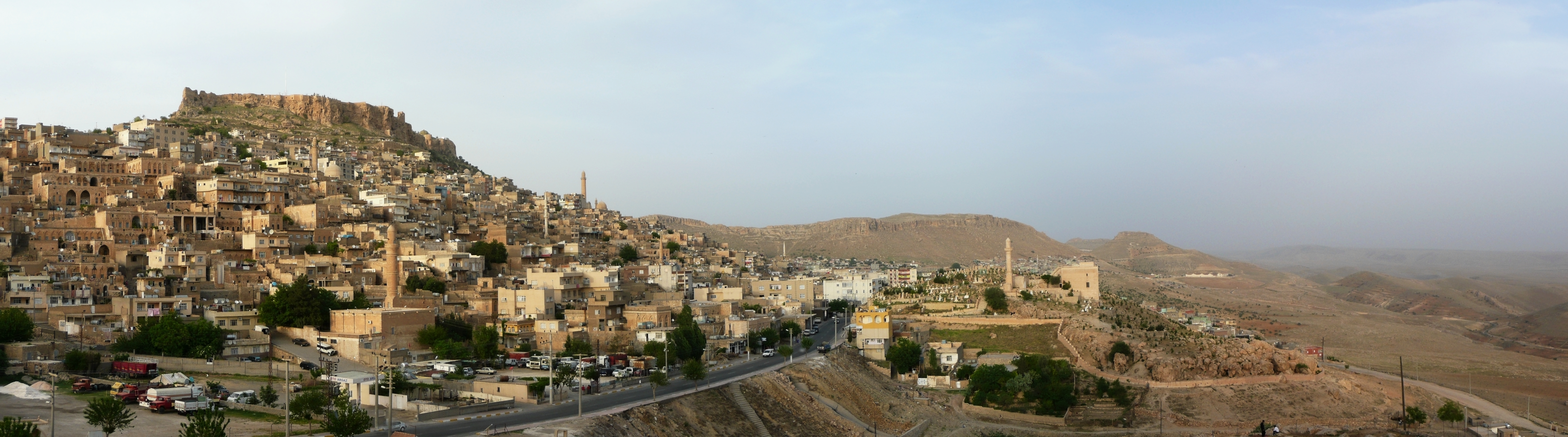 Photographs from Mardin, Turkey